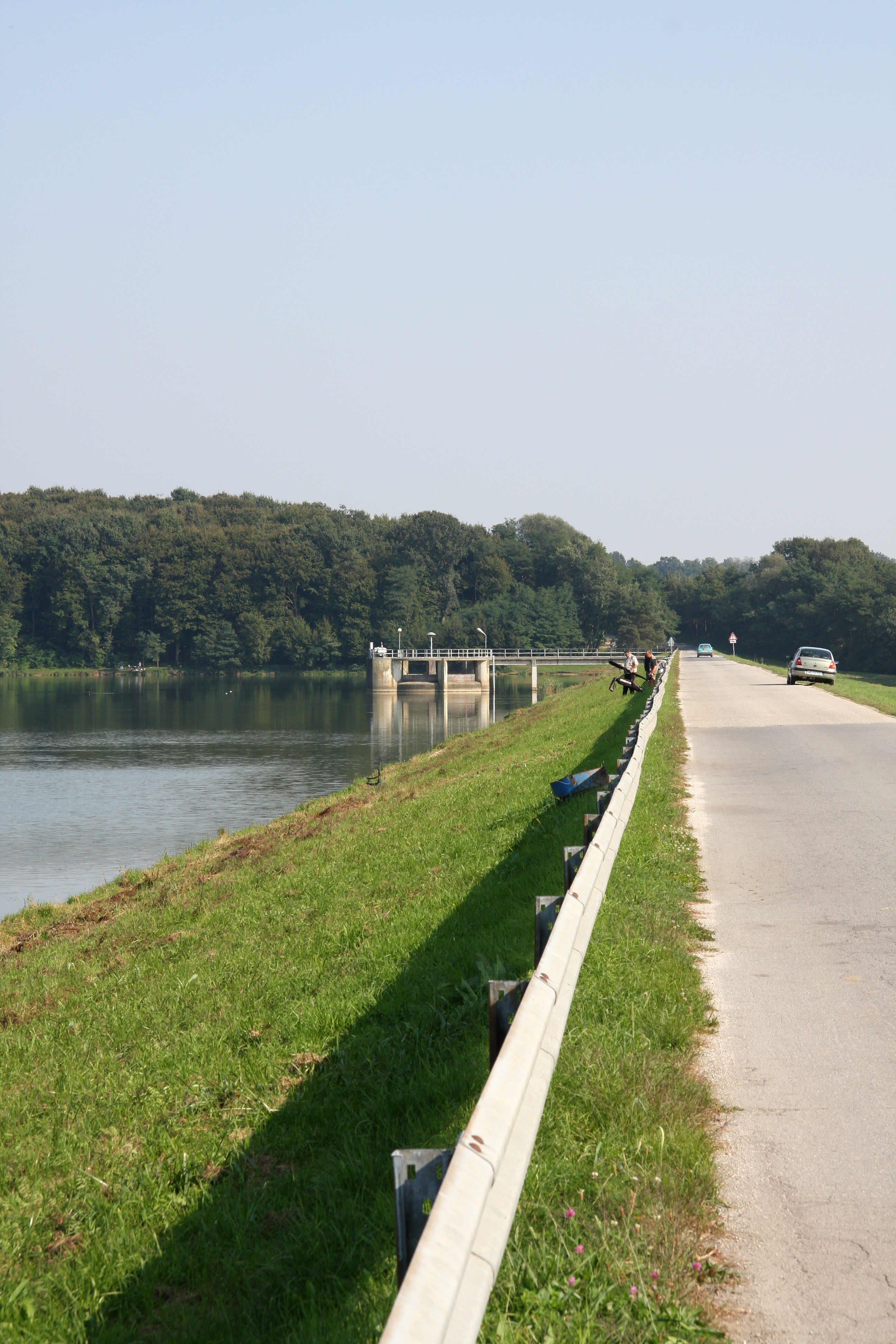 The Ledavsko lake dike.